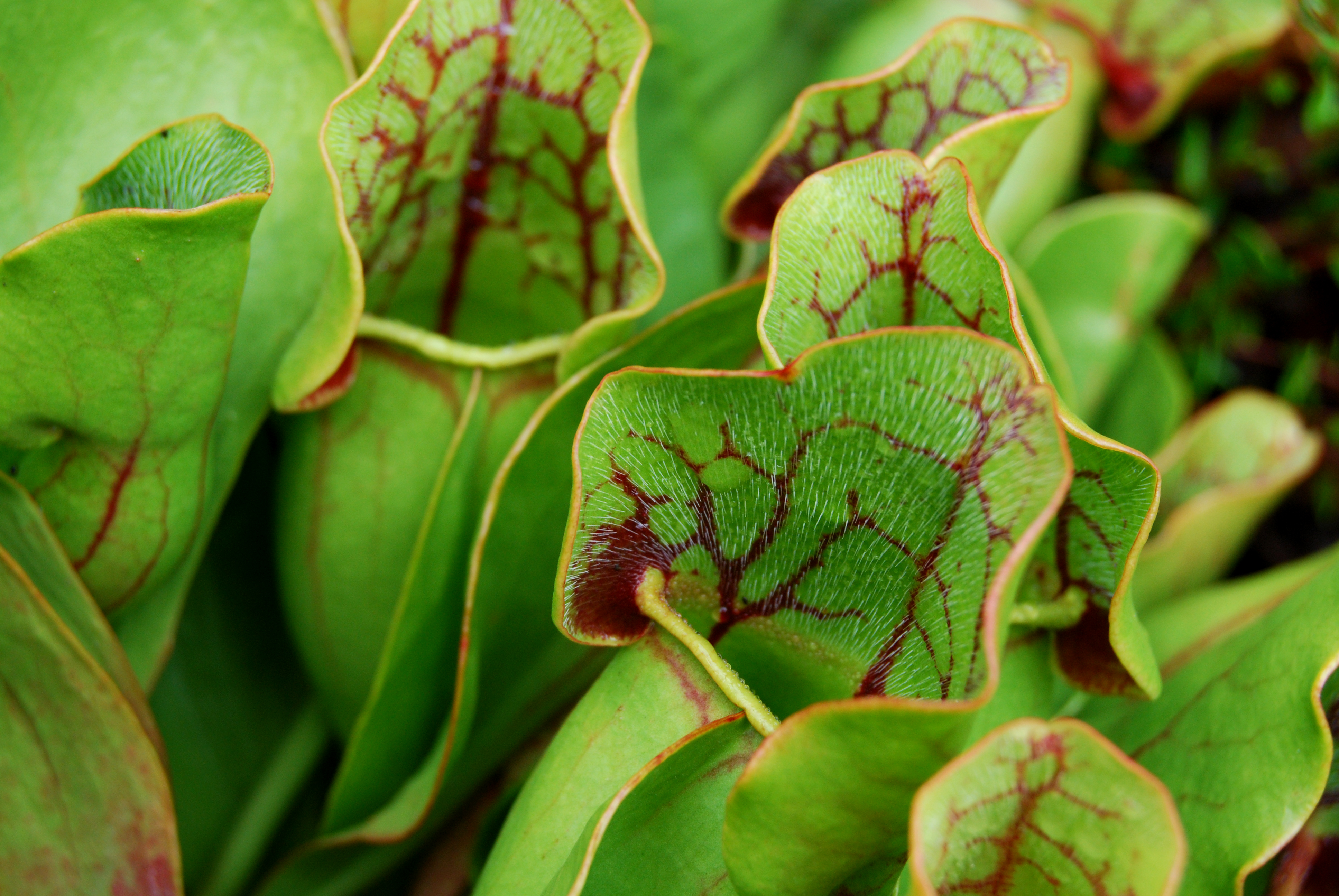 Pitcher plant, Sarracenia purpurea, Cranberry Glades, Round Glade